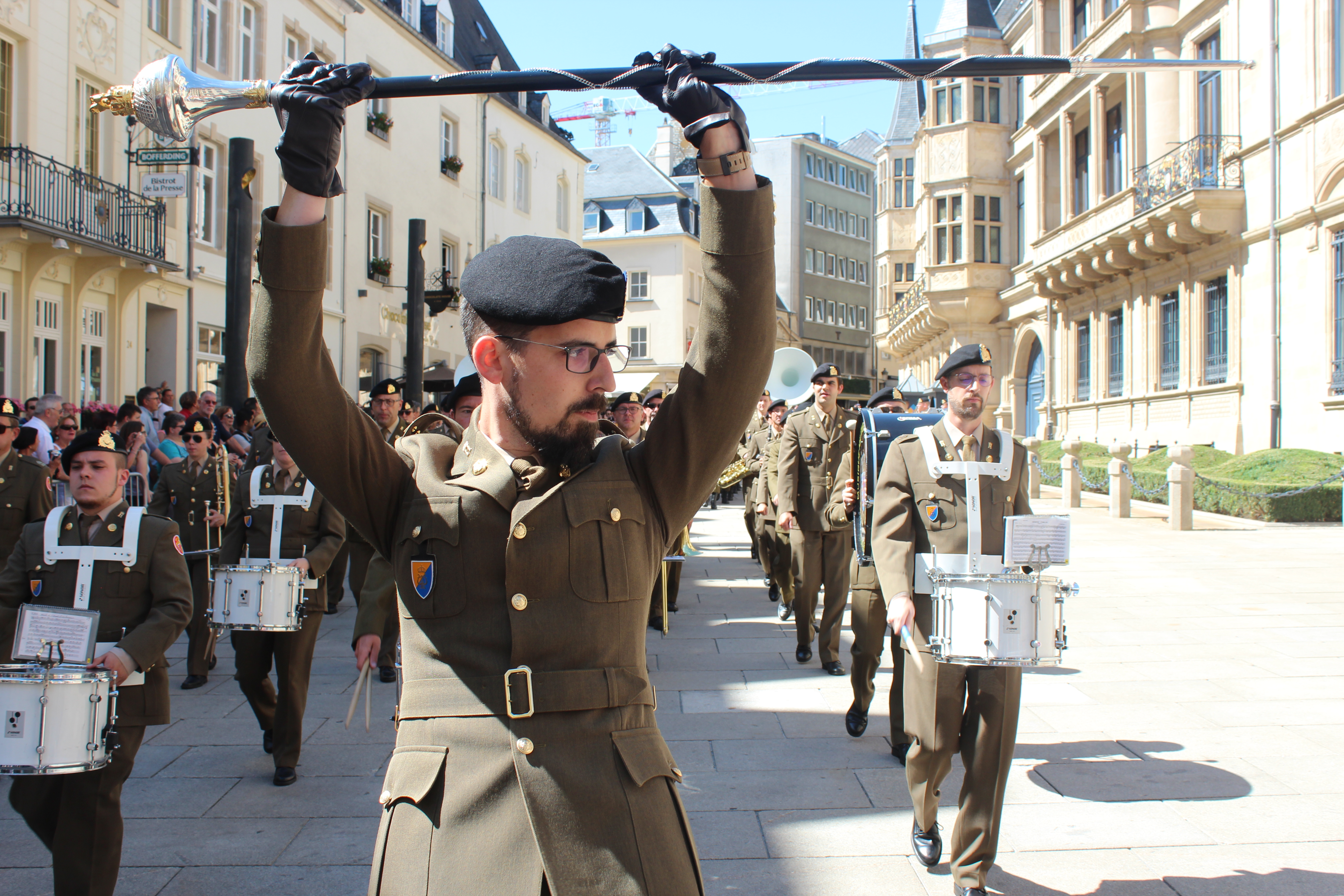 The Luxembourg army band, during a Changing the Guard ceremony in front of the Grand-ducal palace in Luxembourg City. Director Philippe Noesen.